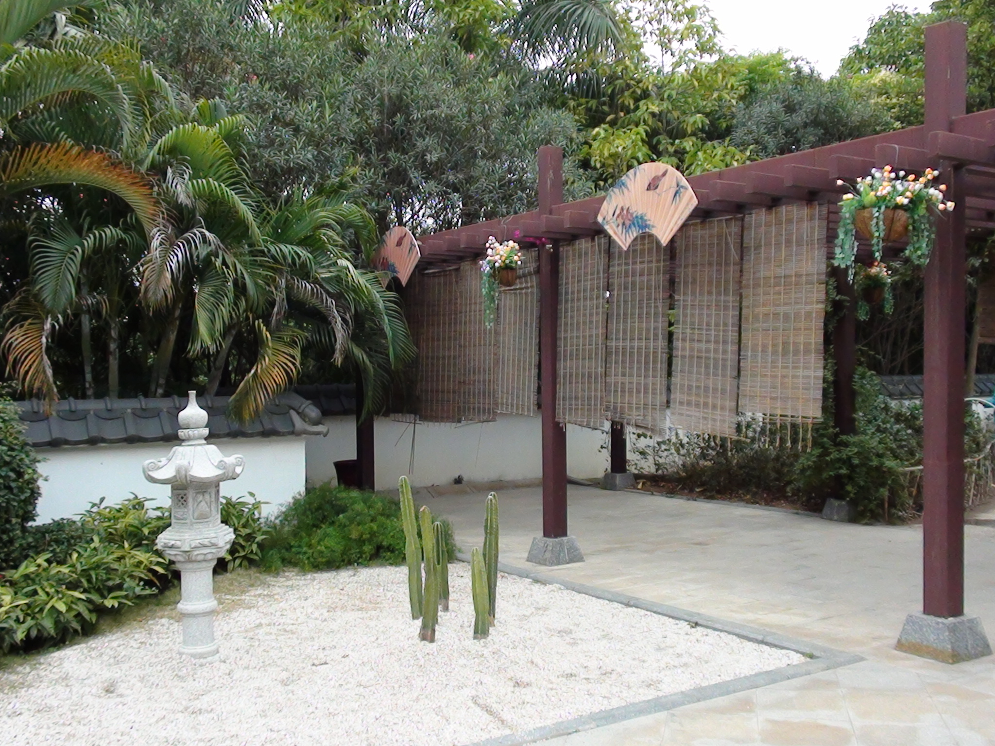 深圳国际园林花卉博览园6